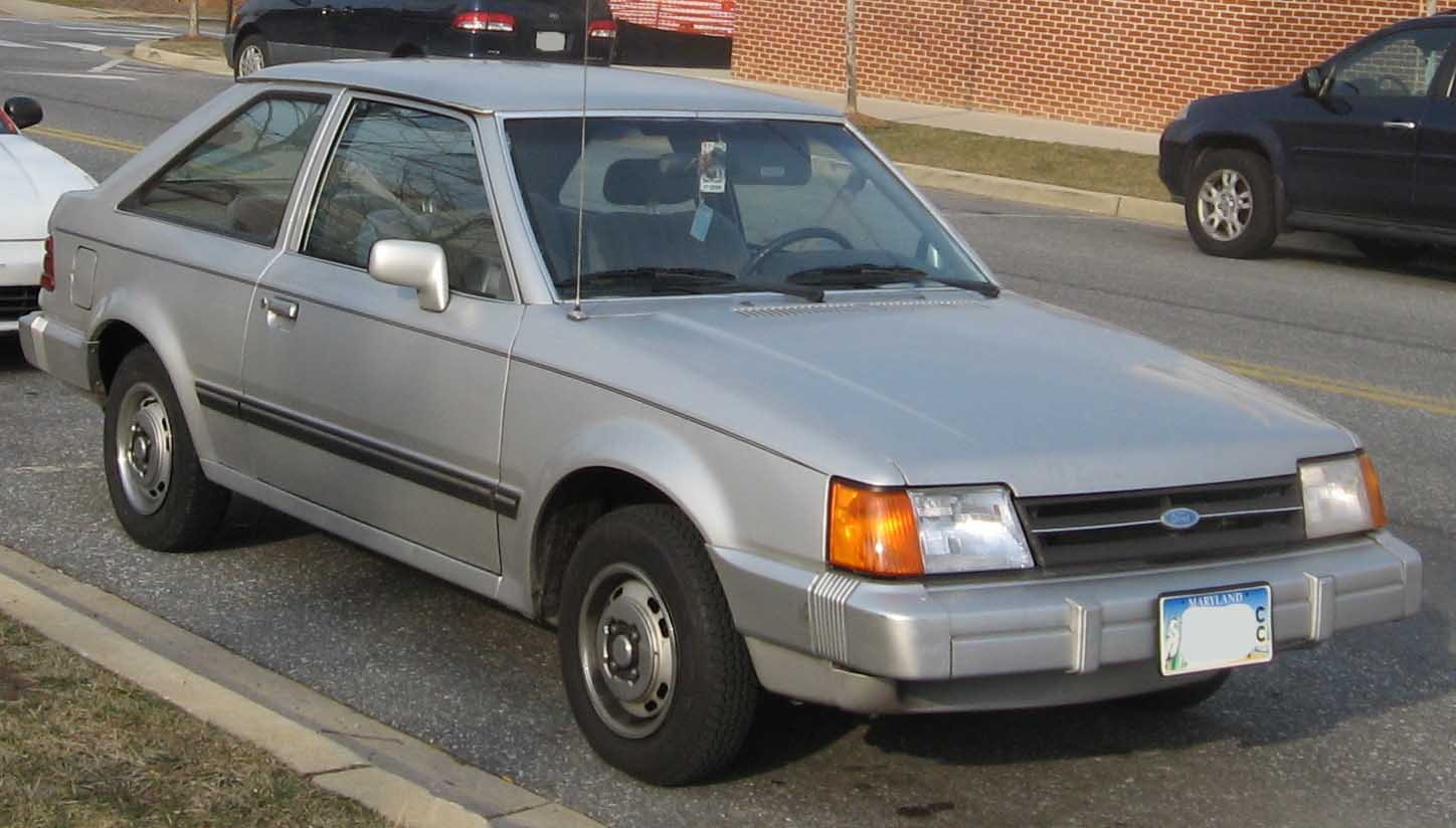 1985-1987 Ford Escort photographed in College Park, Maryland, USA.